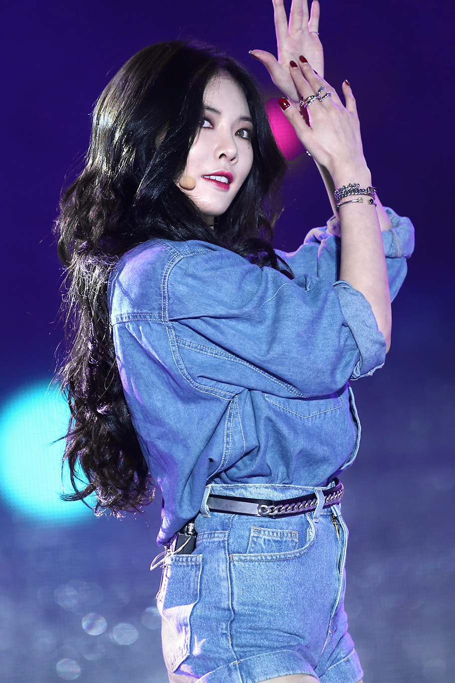 HyunA at 2014 Gyeongju Hallyu Dream Concert.